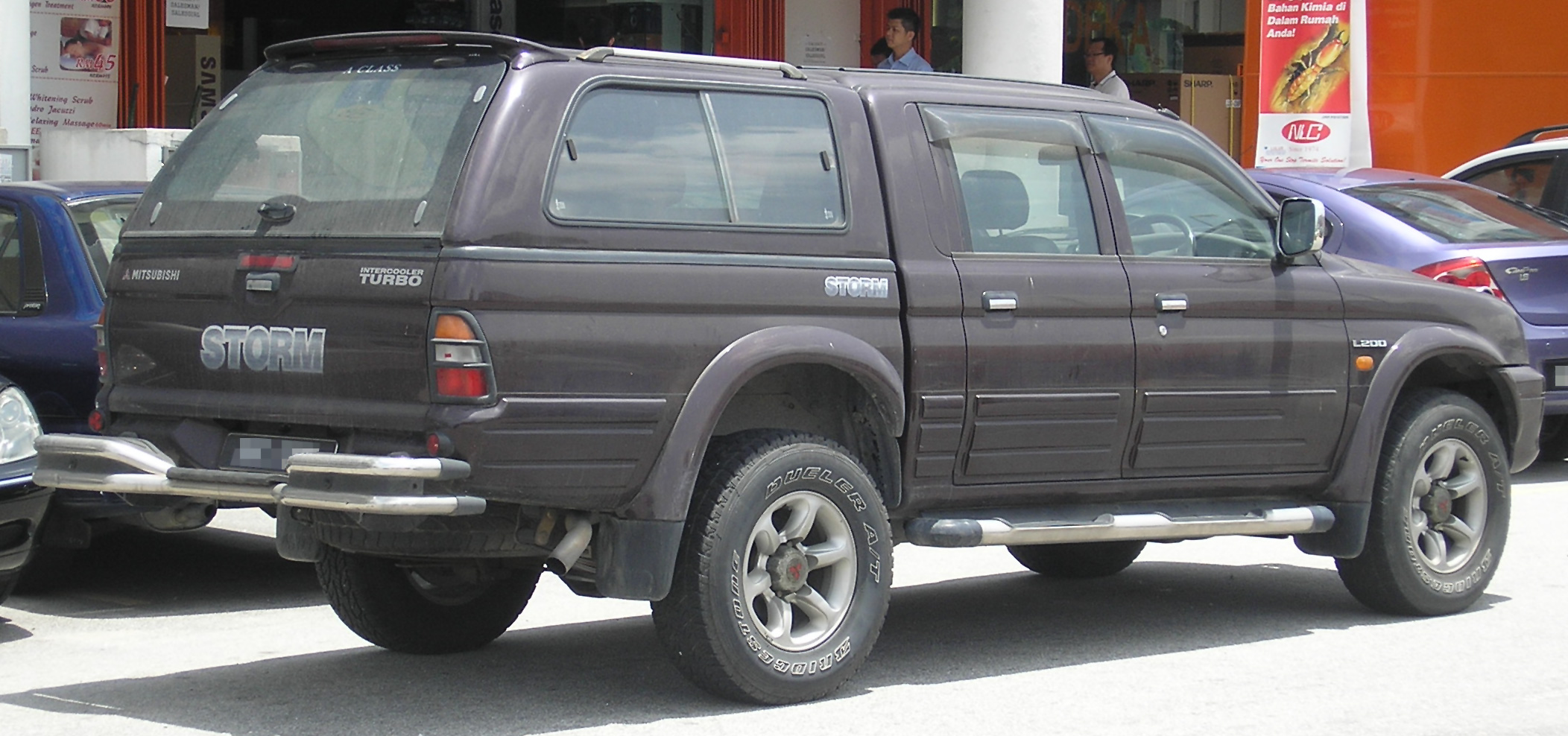 Rear-side shot of a third generation Mitsubishi L200/Storm with a closed bed, in Serdang, Selangor, Malaysia.